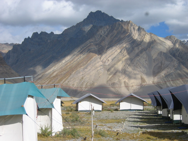 Tent camp offering tourist accommodation around 2km from Rangdum village